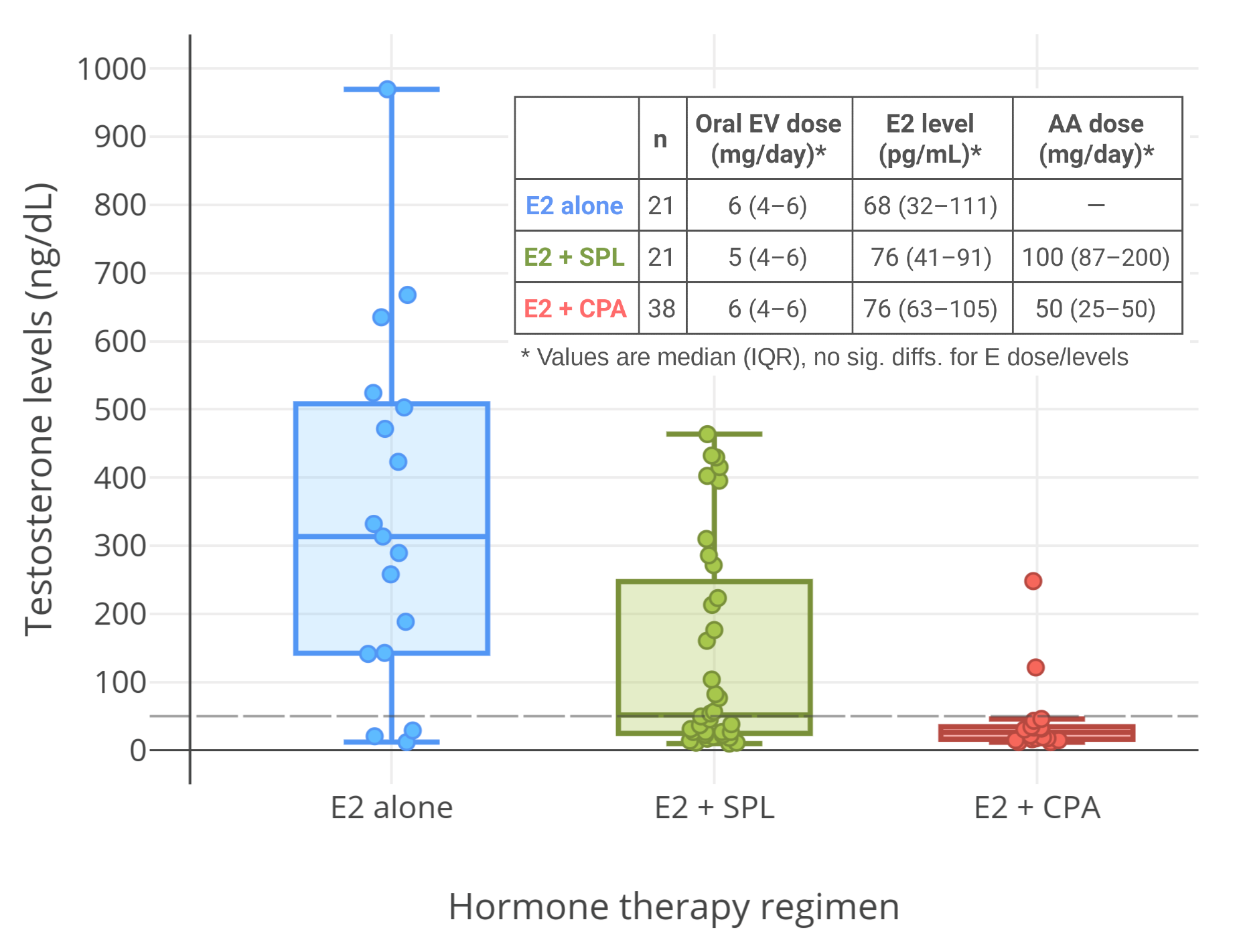 Levels of testosterone (ng/dL) with estradiol (E2) alone or in combination with an antiandrogen (AA) in the form of spironolactone (SPL) or cyproterone acetate (CPA) in 80 transfeminine people. See the table in the figure for more specifics. Estradiol was oral estradiol valerate (EV) in 88% of cases and transdermal estradiol in 12% of cases. Sex hormone levels were determined using "immunoassay" (type of immunoassay not specified). The gray dashed horizontal line is the upper limit for the female/castrate range (50 ng/dL). Source of the values: (July 2019). "Cyproterone acetate or spironolactone in lowering testosterone concentrations for transgender individuals receiving oestradiol therapy". Endocr Connect 8 (7): 935–940. PMID 31234145. PMC: 6612061.